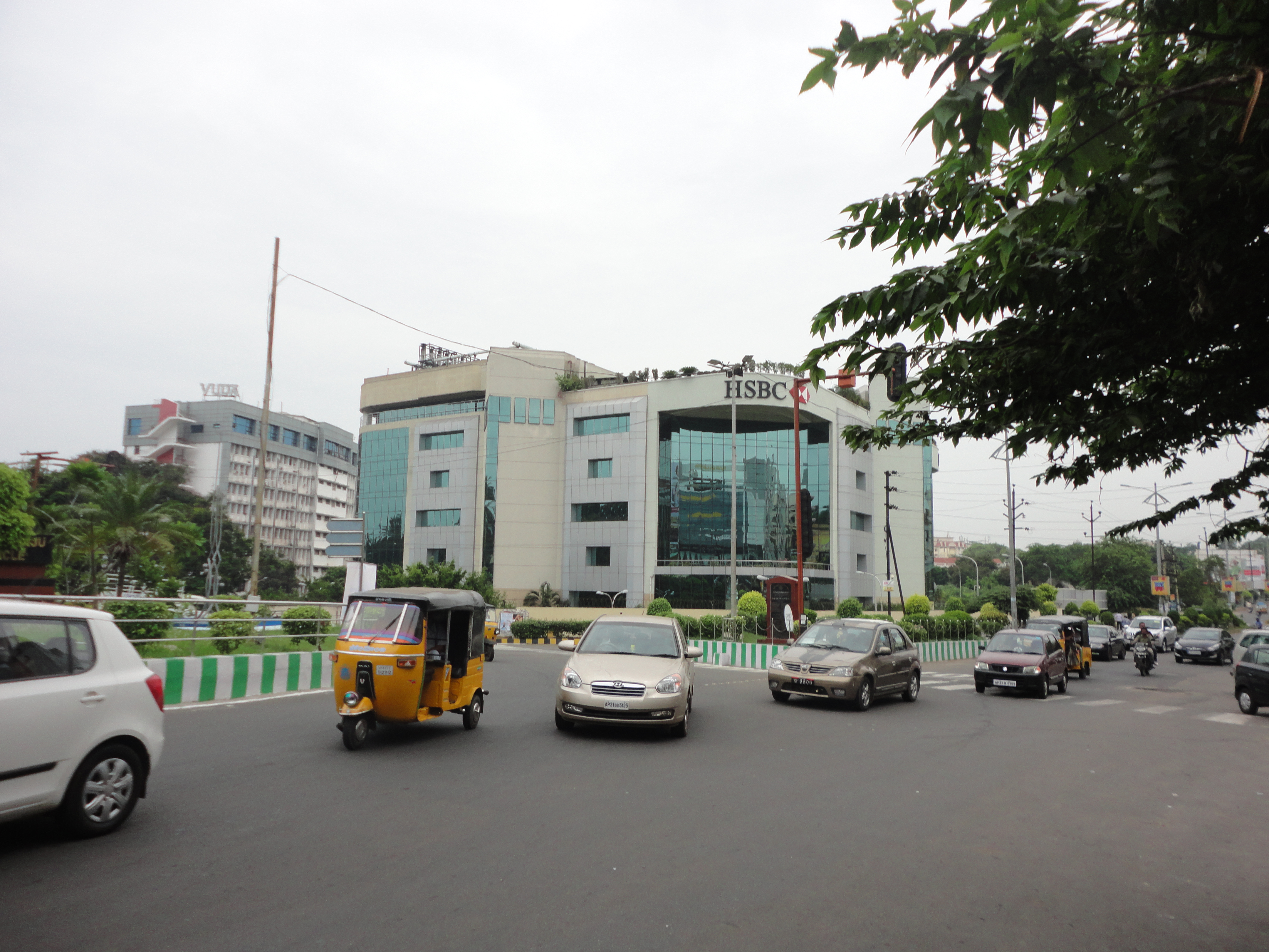 VUDA & HSBC Buildings at Siripuram